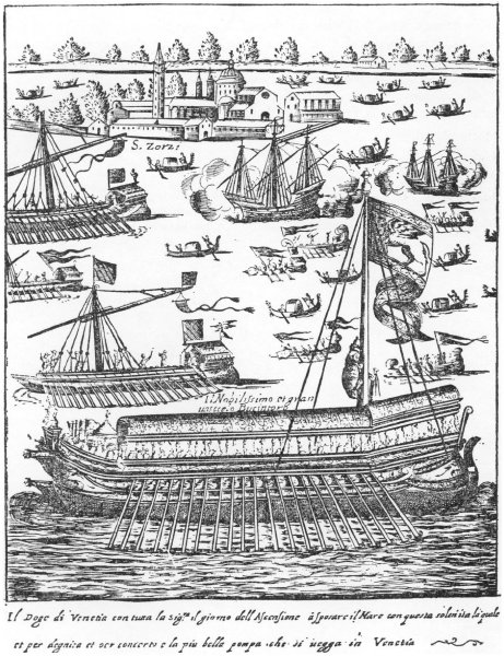 Bucentaur, the Doge's ship of state, accompanied by gondolas, gallies, and sailing vessels.